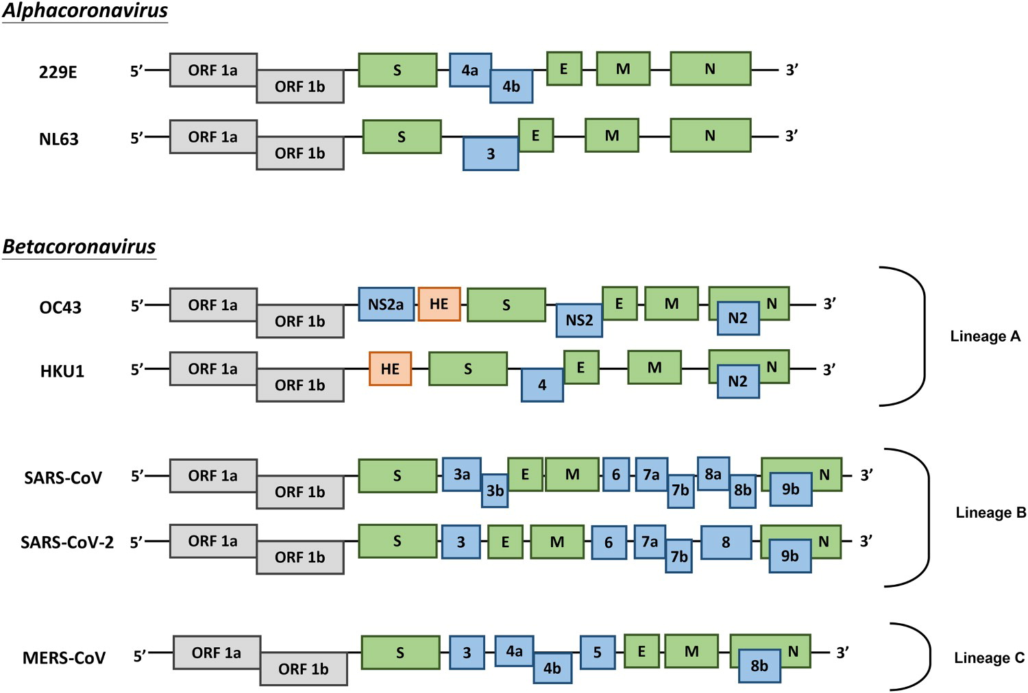 Genome organization of HCoVs. Schematic diagram of seven known HCoVs is shown (not in scale). The genes encoding structural proteins spike (S), envelope (E), membrane (M), and nucleocapsid (N) are in green. The gene encoding haemagglutinin-esterase (HE) in lineage A of betacoronaviruses is in orange. The genes encoding accessory proteins are in blue.